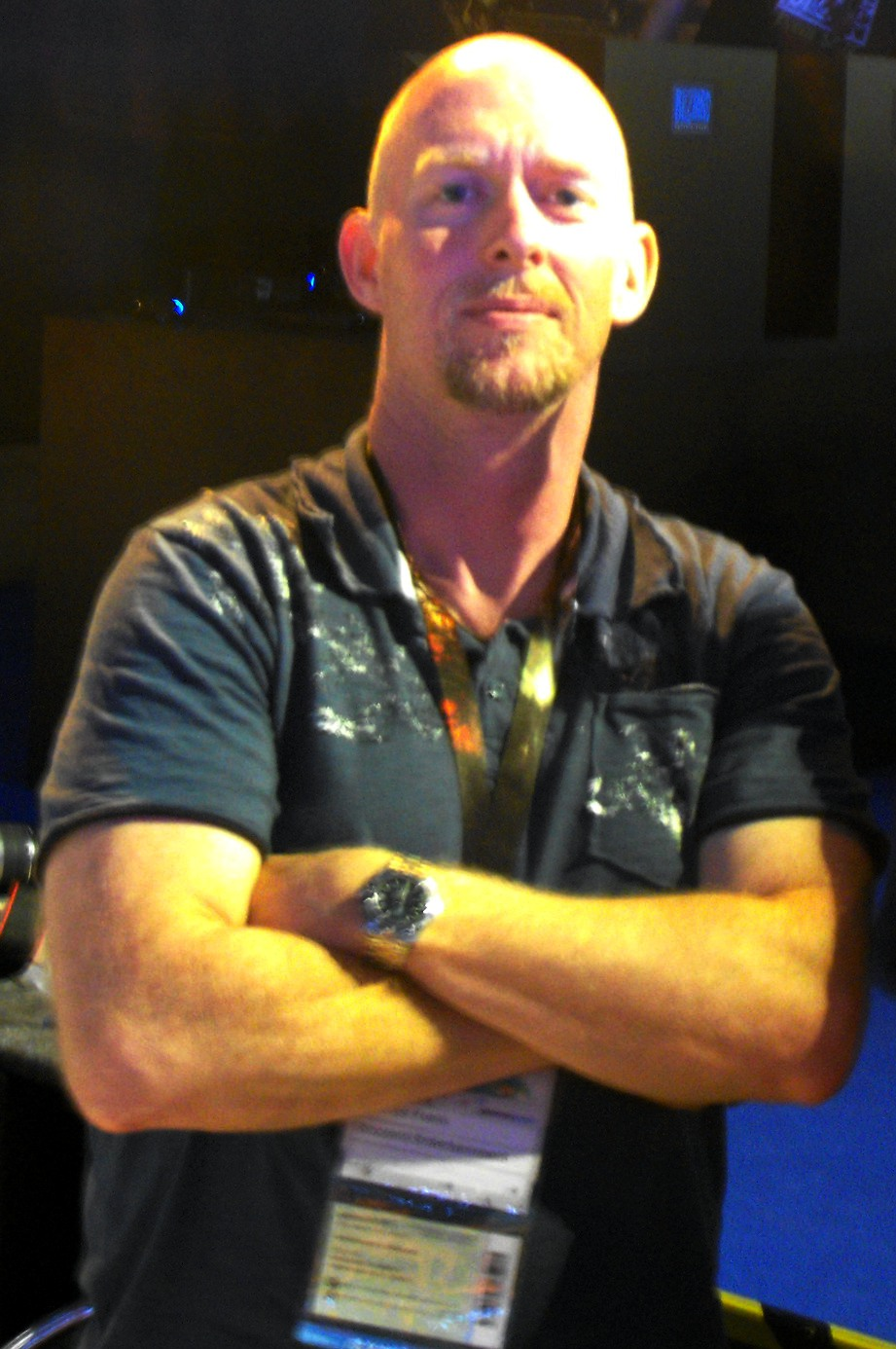 Frank Pearce at gamescom 2011